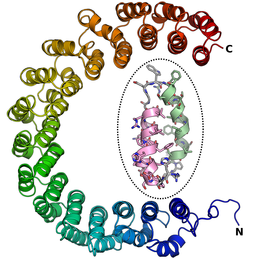 The alpha solenoid structure of regulatory subunit A of protein phosphatase 2A (PP2A). The full-length protein, containing 15 helix-turn-helix HEAT repeats, is shown with the N-terminus in blue at the bottom and the C-terminus in red at the top. A single helix-turn-helix repeat is shown in the center, with the outer helix in pink, the inner helix in green, and the turn in white. Rendered using PyMol from PDB ID 2IAE. Cho US, Xu W. Crystal structure of a protein phosphatase 2A heterotrimeric holoenzyme. (2007). Nature 445, 53-57. DOI 10.1038/nature05351